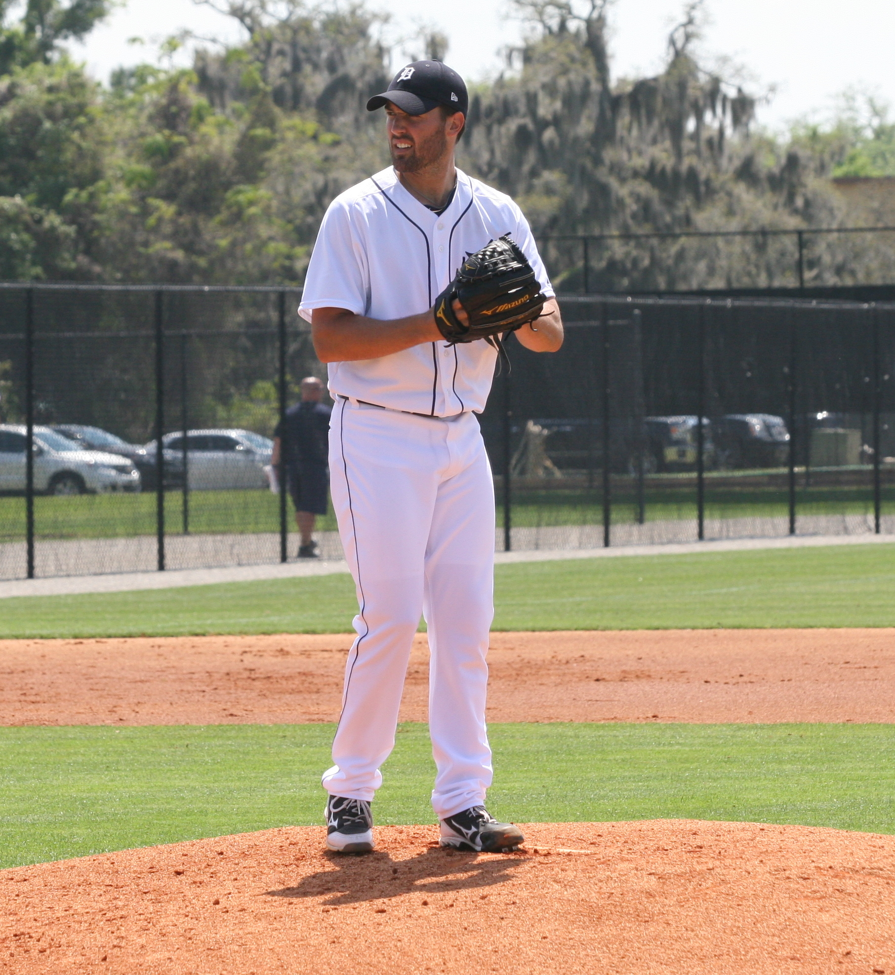 Robbie Ray IMG_1203